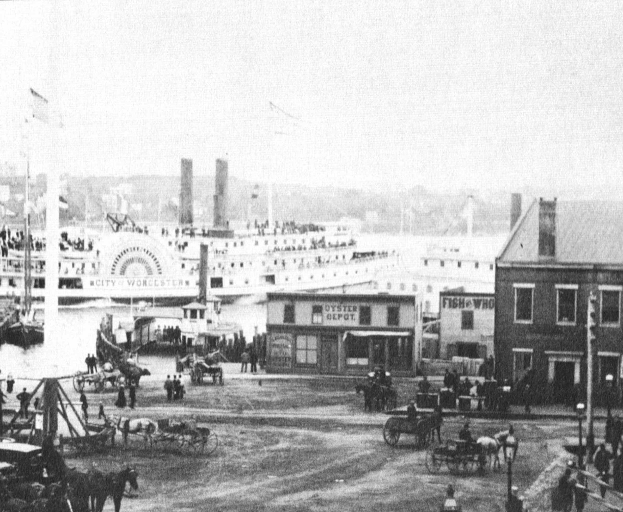 At far right in this 1883 scene is the 1852-built New London station, with the railroad ferry Groton just behind it. The steamboat City of Worcester is at left departing for Newport on an excursion, while the passenger ferry Uncas is docked.